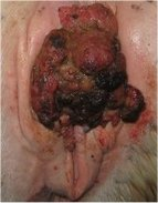 Close-up of Large cancerous tumor within the skin around the vulva of a gray mare. The most likely kind of cancer based on location is a squamous-cell carcinoma. Grey horses are also prone to developing melanomas at the tailbase.